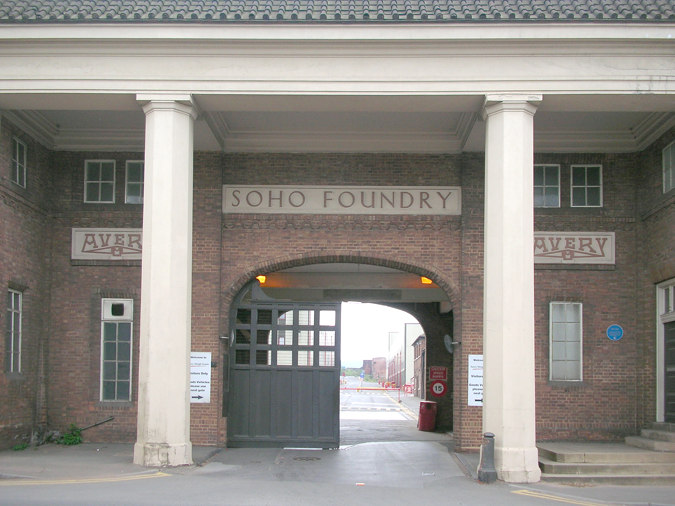 Soho Foundry, Foundry Lane, Smethwick, West Midlands, England. Photographed by me 22 April 2007. Oosoom